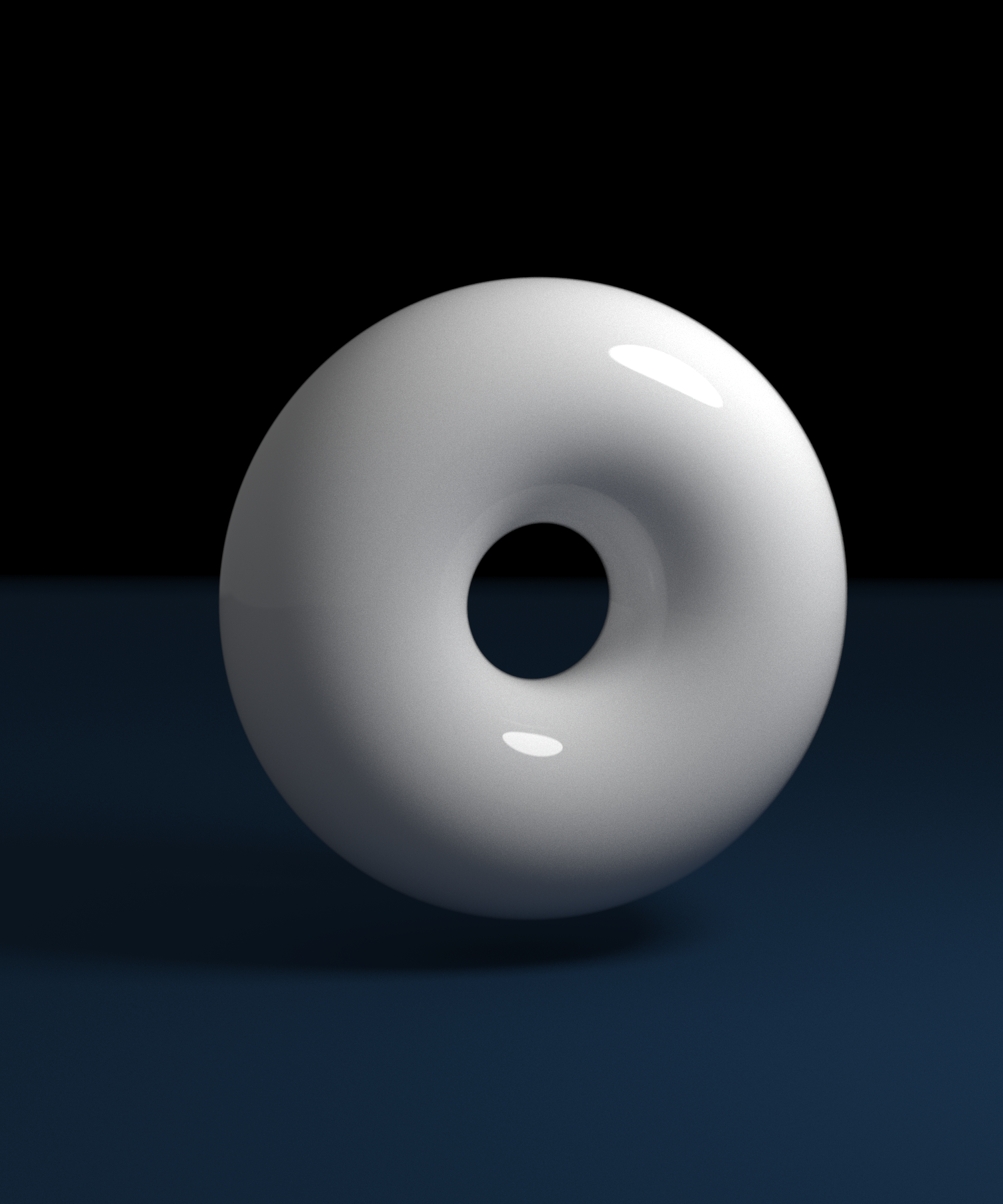 Self-made with PlotOptiX package for ray tracing in Python.